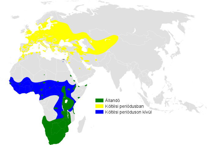 Acrocephalus scirpaceus and Acrocephalus baeticatus distribution map, based on